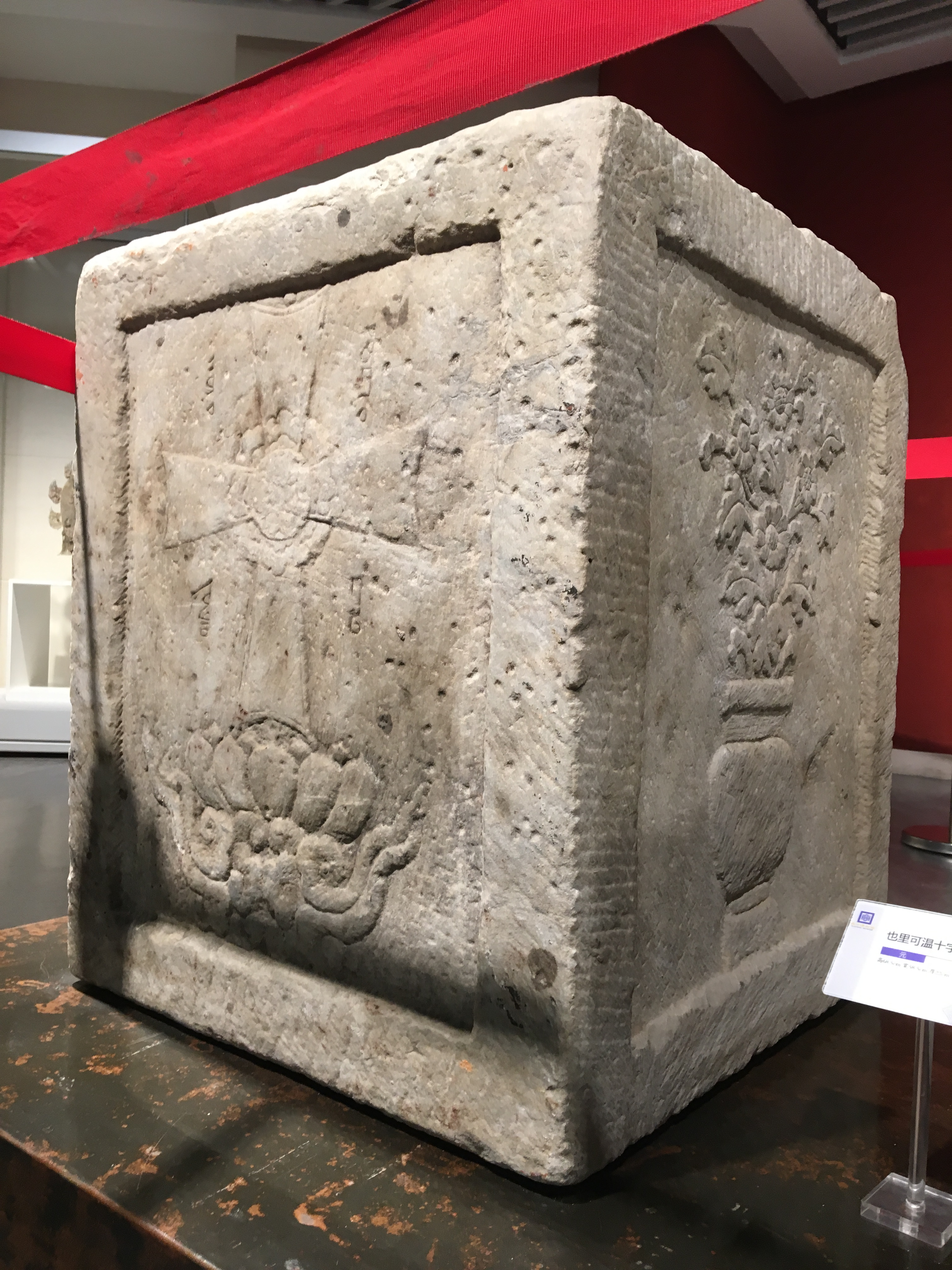 A stone from the Yuan dynasty (1271-1368 CE) in the Nanjing Museum with a cross and Syriac inscription containing a verse from the Peshitta. Stone is one of two from a Church of the East site in Fangshan District near Beijing (called Khanbaliq or Dadu in the Yuan dynasty). The verse is the first half of what is now Psalms 34:5 in most bibles. In Syriac it reads "ܚܘܪܘ ܠܘܬܗ ܘܣܒܪܘ ܒܗ" and in the Aramaic Bible In Plain English translation it reads "Gaze unto him and hope in him."